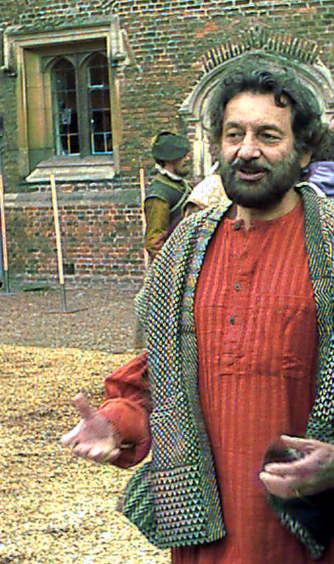 Shekhar Kapur on the set of Elizabeth: The Golden Age